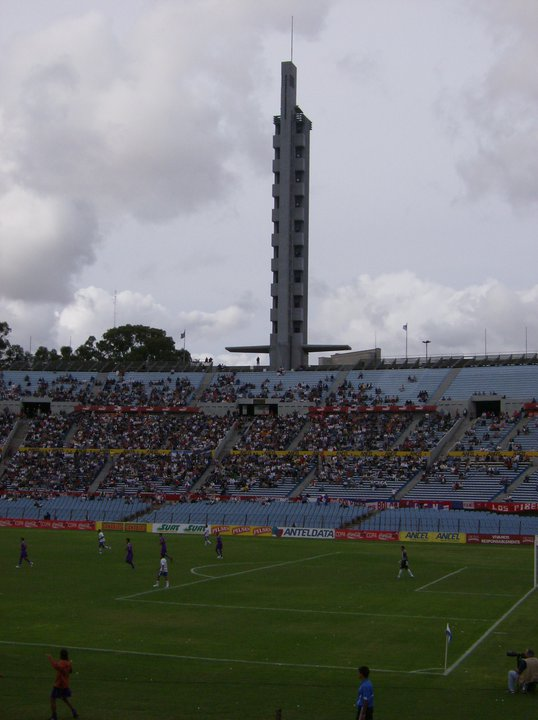 Olympic Tribune at Centenario Stadium (MVD)